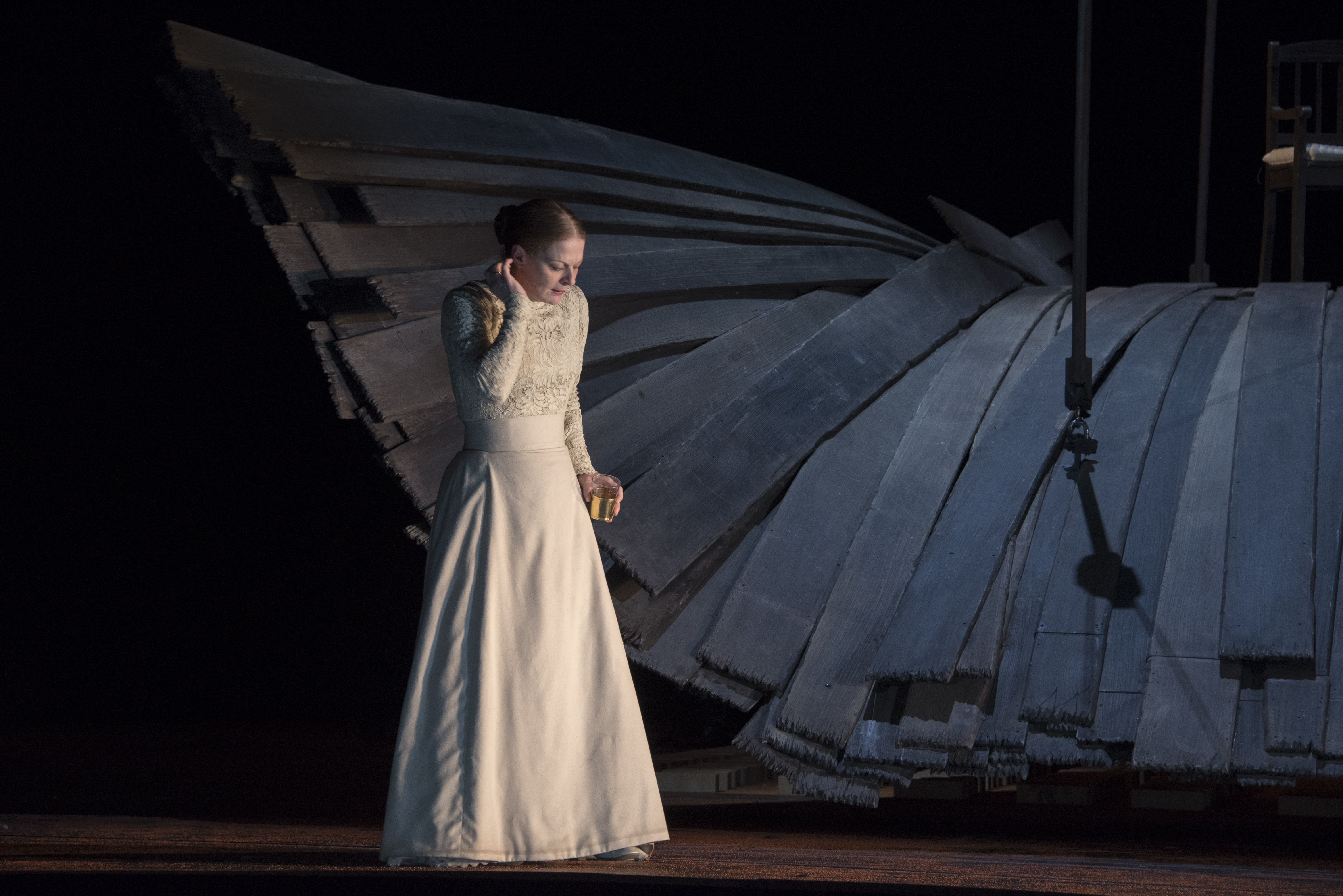 Wassa Schelesnowa, Burgtheater Vienna, October 2015